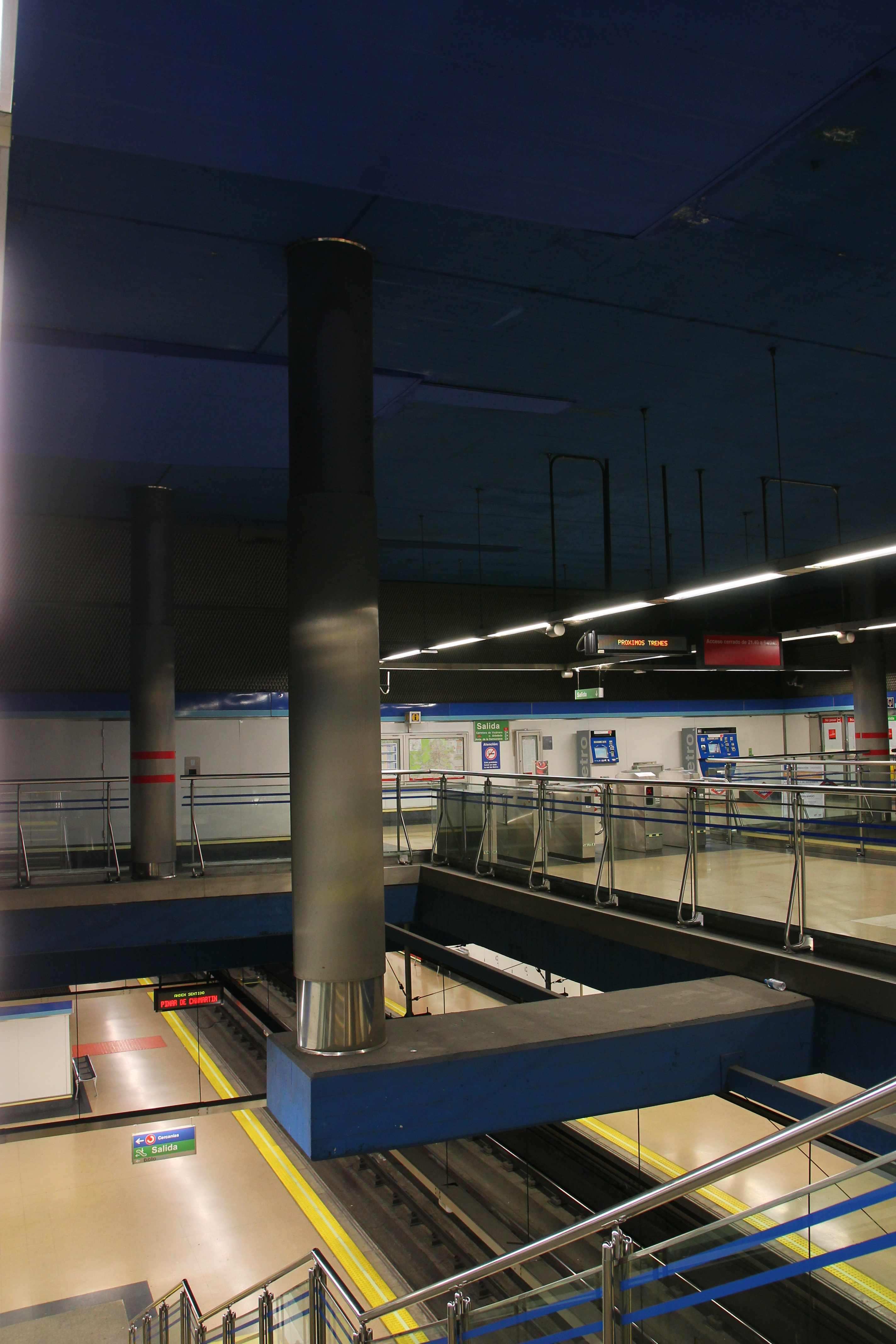 Sierra de Guadalupe station. Madrid Metro.